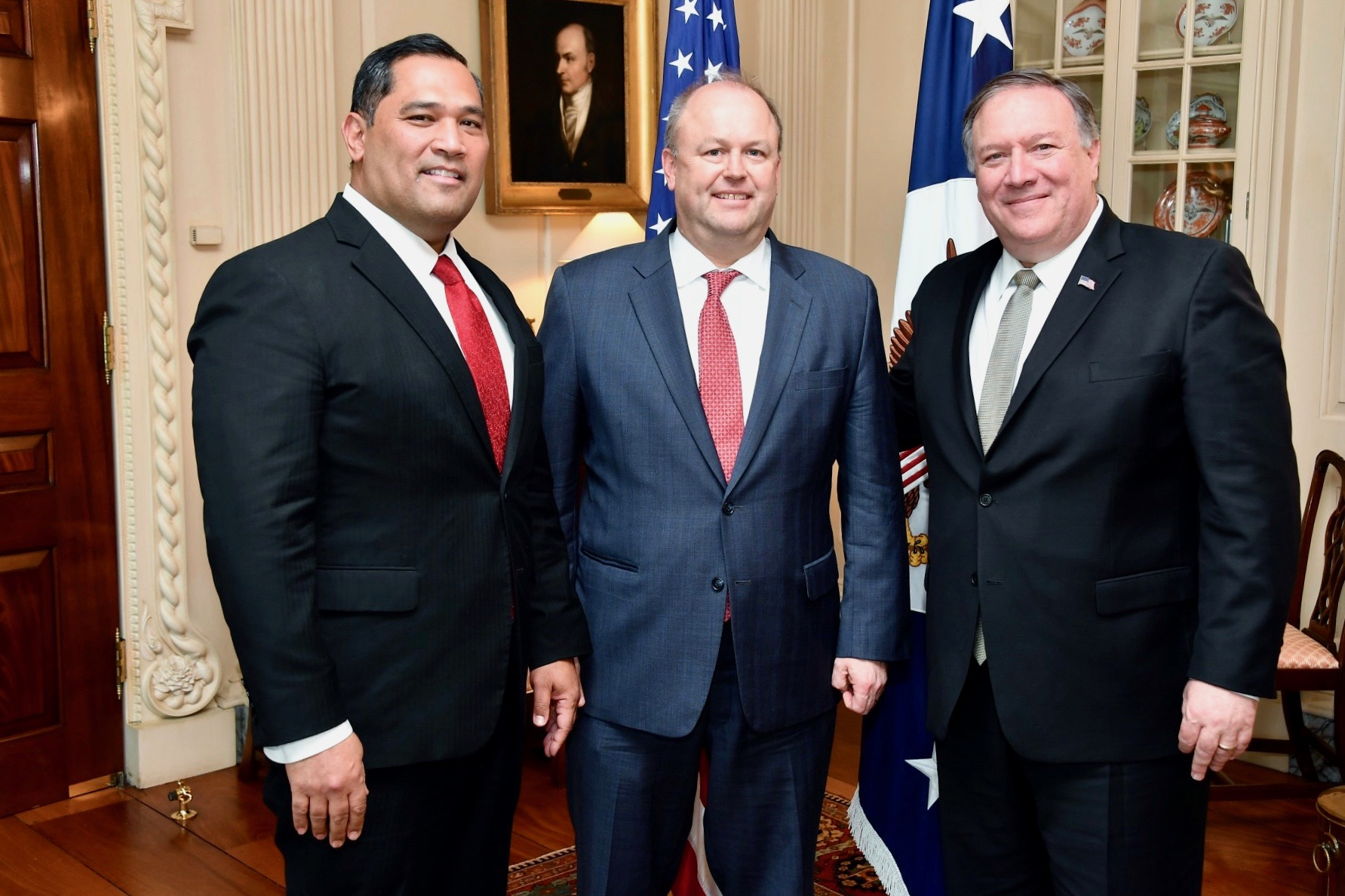 U.S. Secretary of State Michael R. Pompeo swears in Brian Bulatao as the new Under Secretary of State for Management at the U.S. Department of State in Washington, D.C., on May 17, 2019. [State Department photo by Michael Gross/ Public Domain]